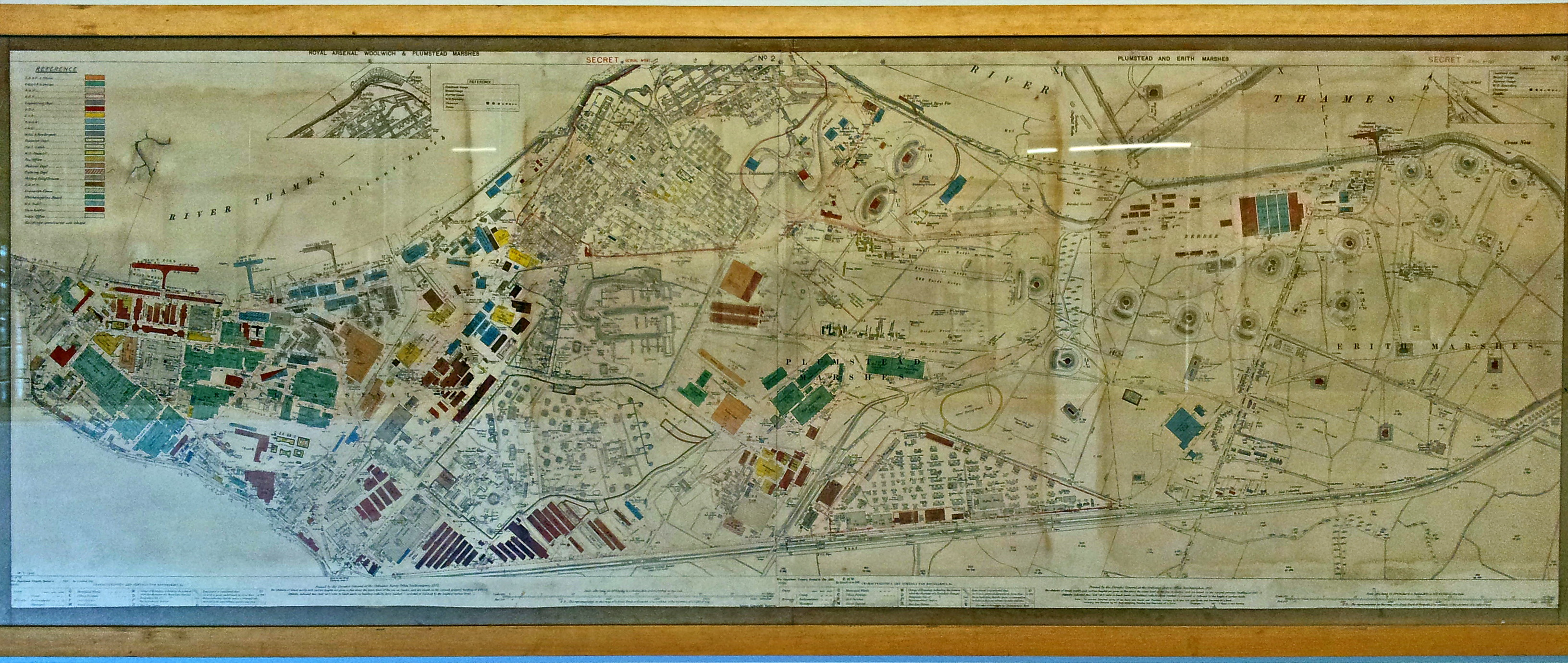 View of a map of the Royal Arsenal at the beginning of the 20th century(?), in the collection of the Greenwich Heritage Centre in Woolwich, southeast London, UK.